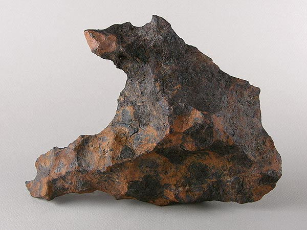 Canyon Diablo iron meteorite (IIIAB) 2,641 grams. Note colorful natural patina. Image is missing a needed scale.